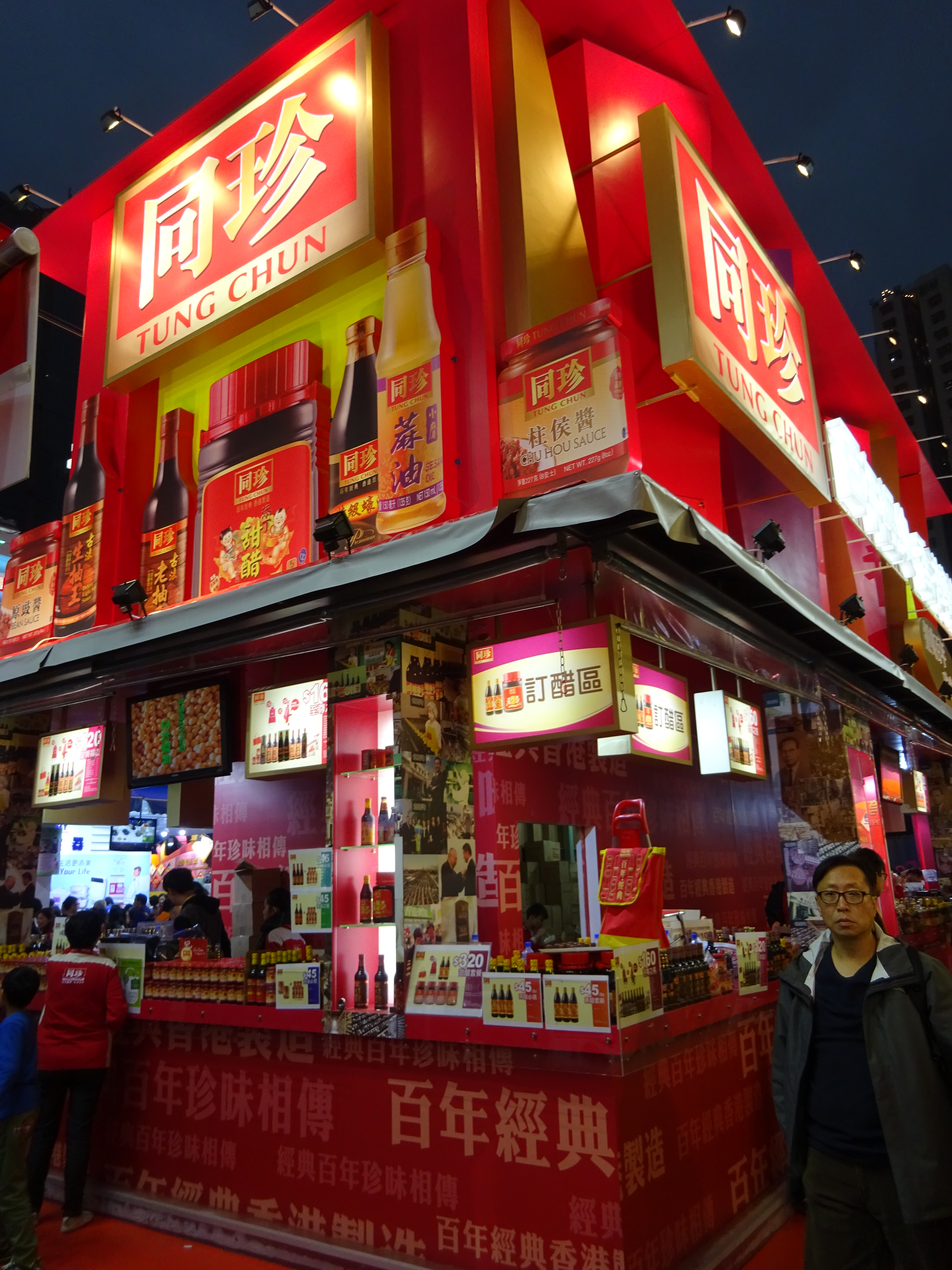 香港工展會, Causeway Bay Victoria Park, HK Brands and Products Expo, HKBPE 2015